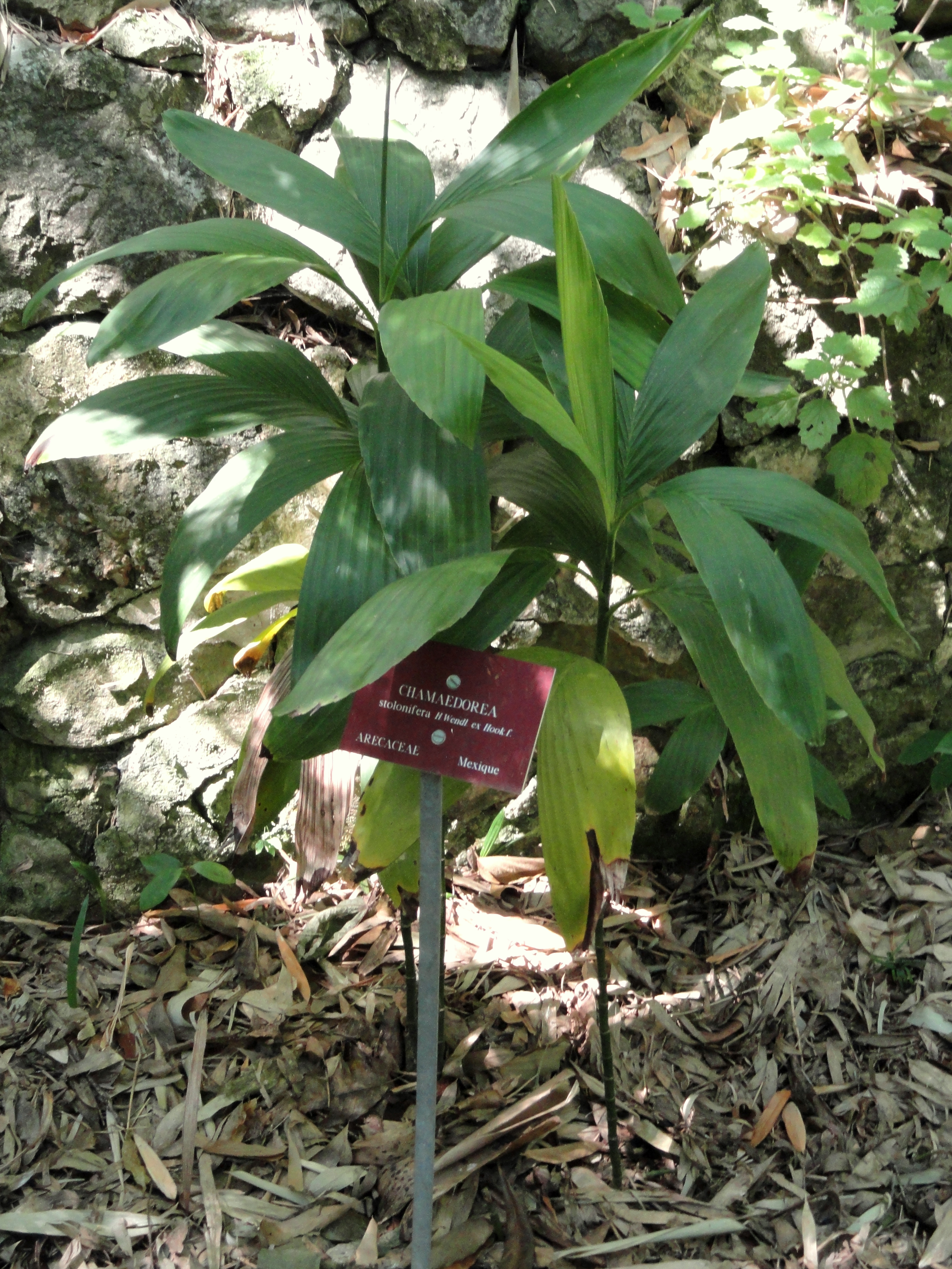 Chamaedorea stolonifera specimen in the Jardin botanique du Val Rahmeh, Menton, Alpes-Maritimes, France.